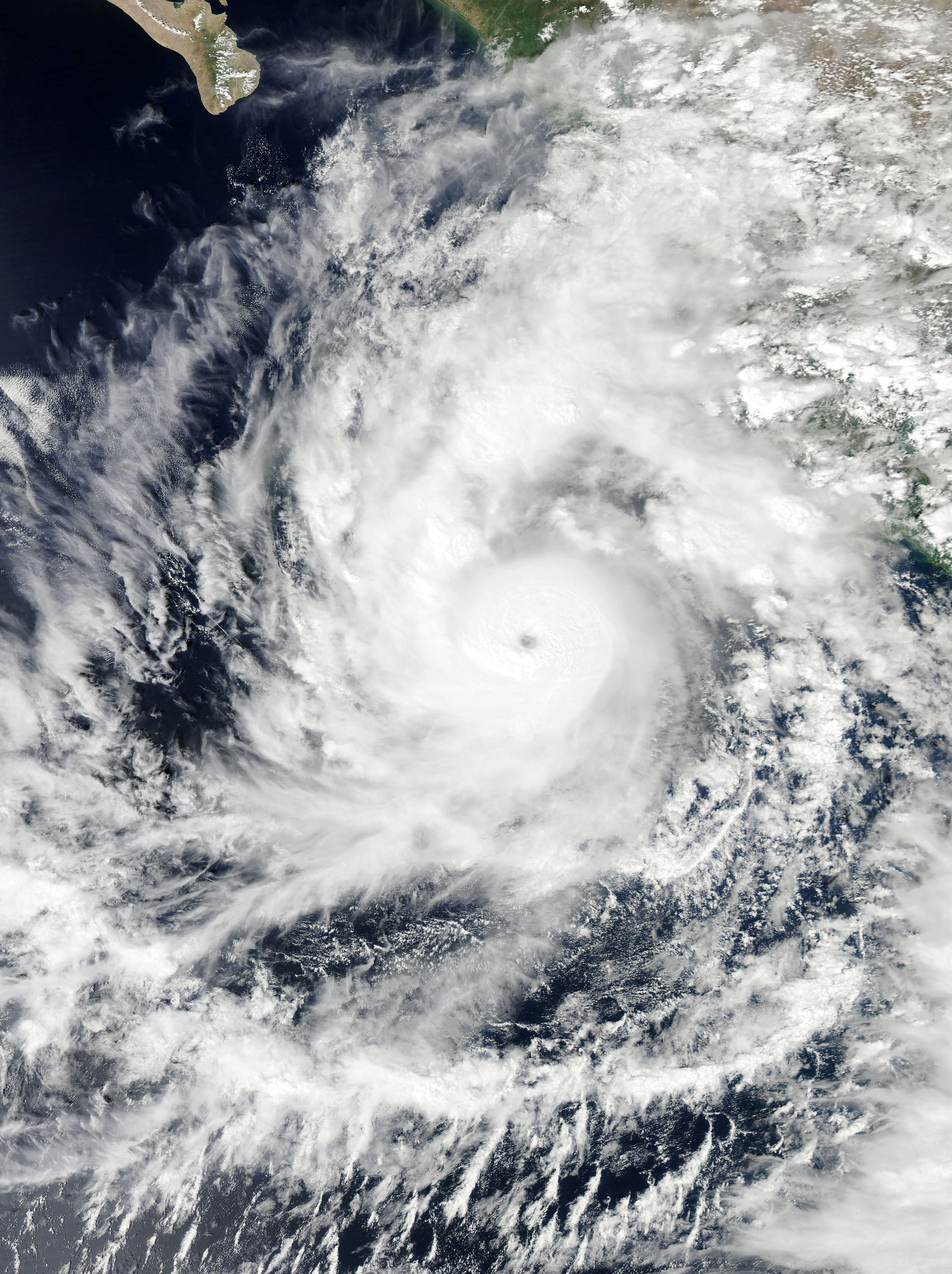 Hurricane Jova on October 10, 2011